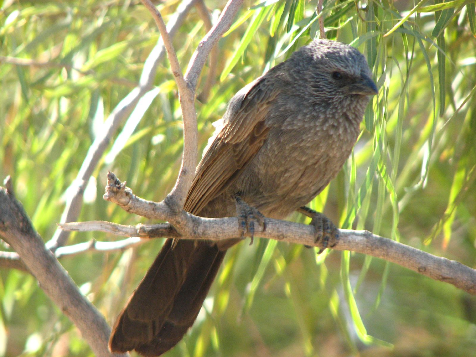 Apostlebird (Struthidea cinerea) in Australia